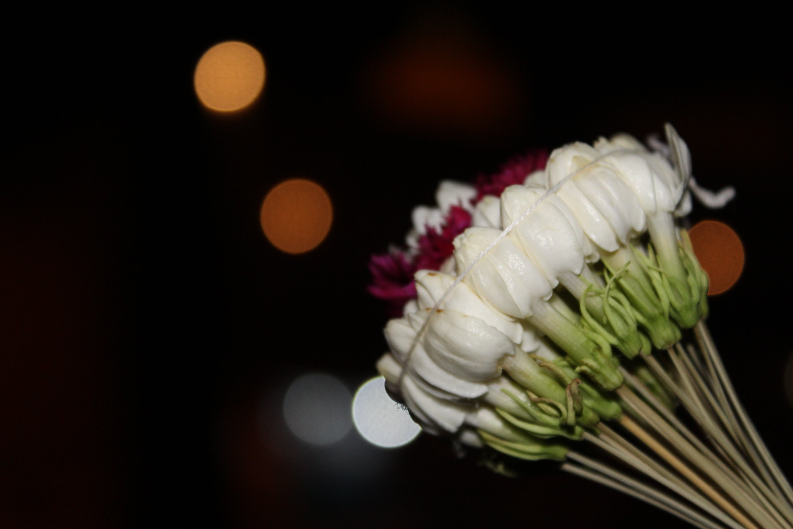 Tunisia تونس